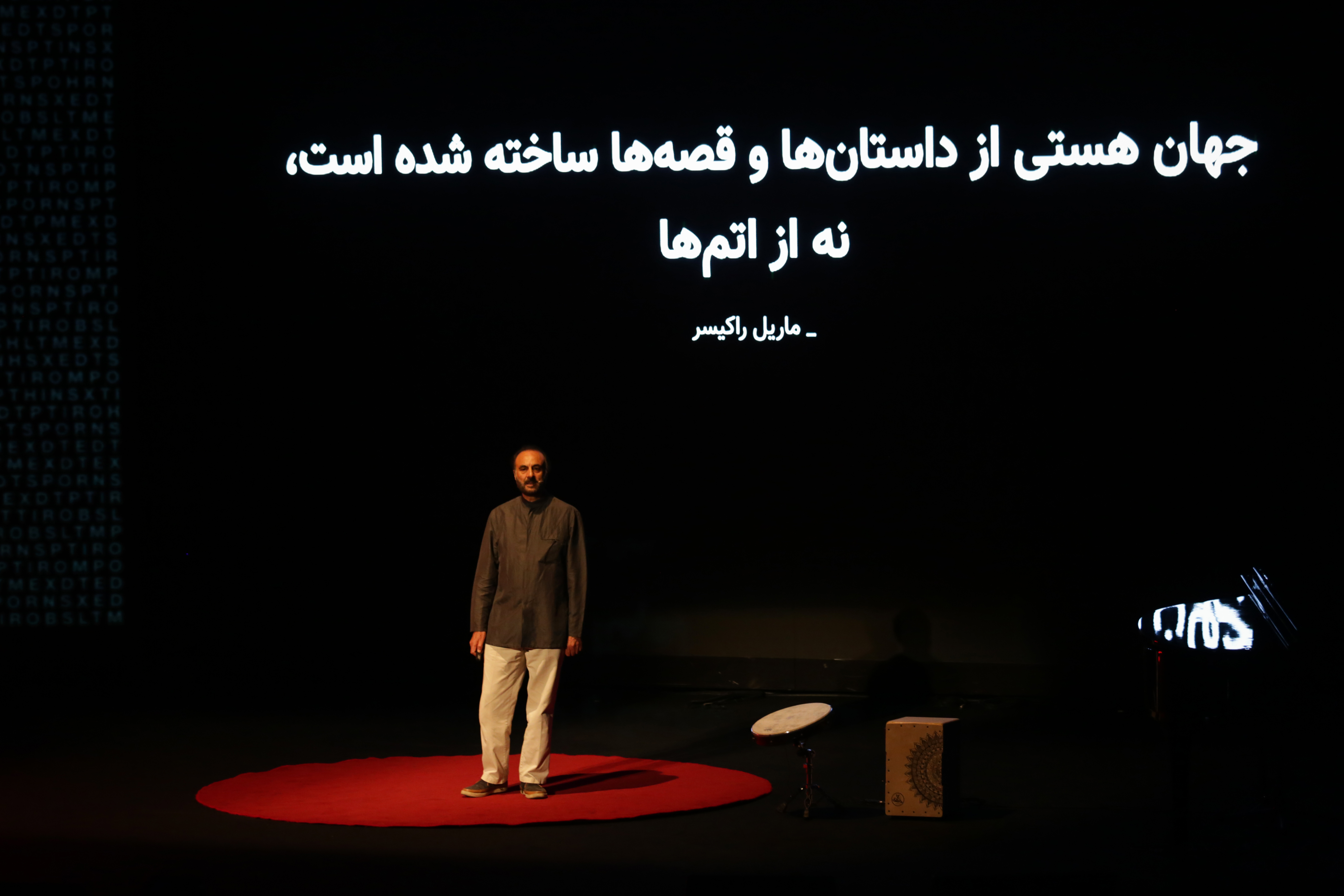 Jafar Mahallati performing a talk at TEDxTehran 2019